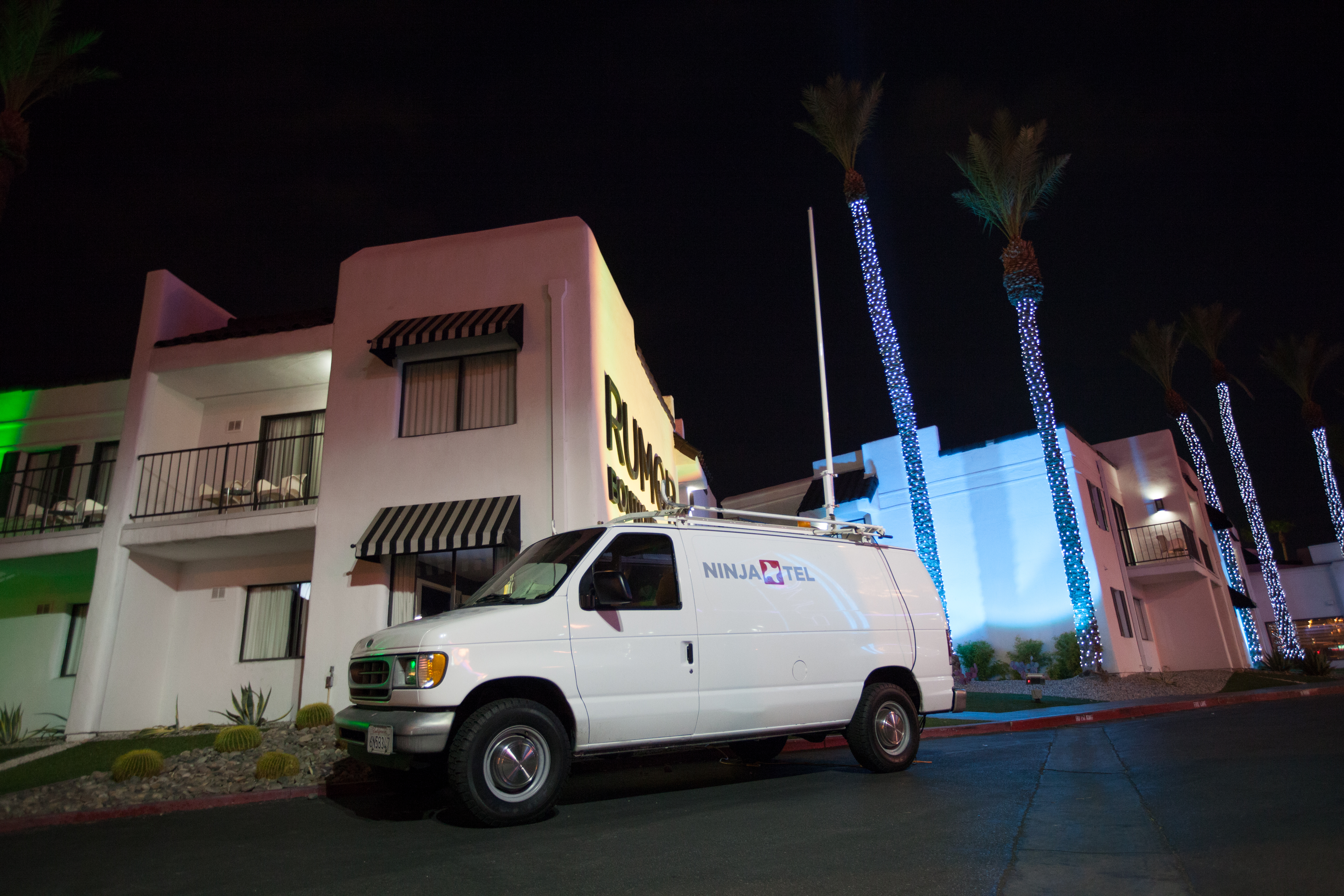 This van hosted a small "pirate" GSM mobile network for the DEF CON 20 conference. Shown parked outside the Rumor Boutique Hotel for the DEF CON 20 Ninja Party.